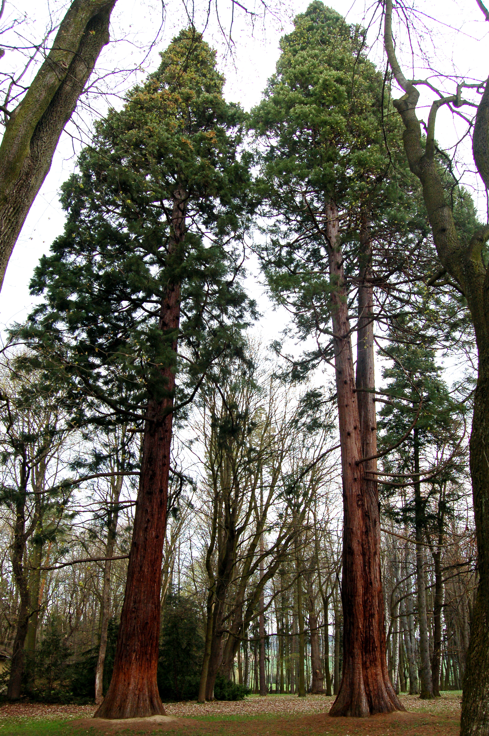 two sequoia trees in Chateau Ratměřice garden